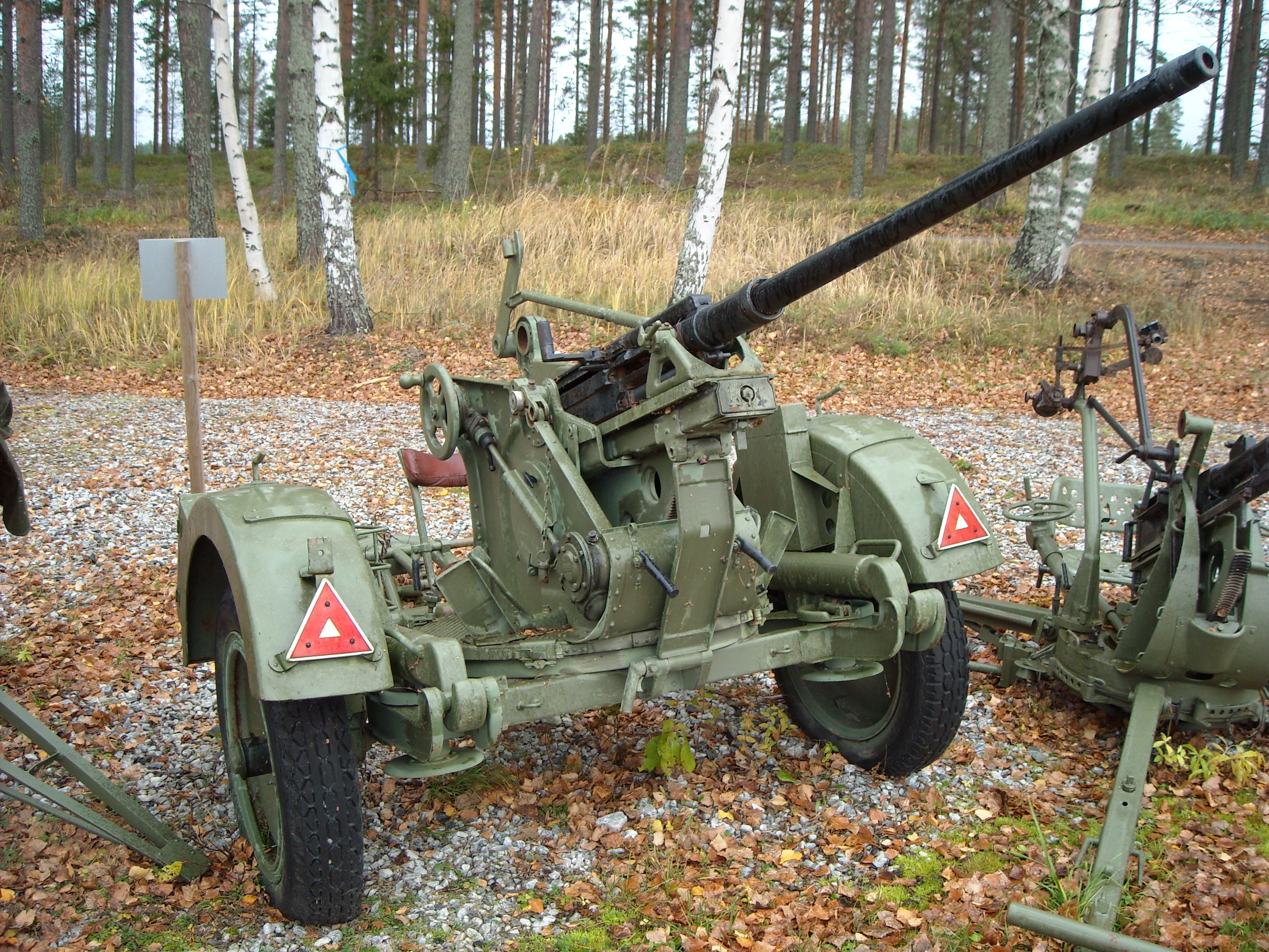 German made 2-cm-Flak 30 (20 mm anti-aircraft gun late 30'). Used by (for instance) Defence Forces of Finland at WW II.